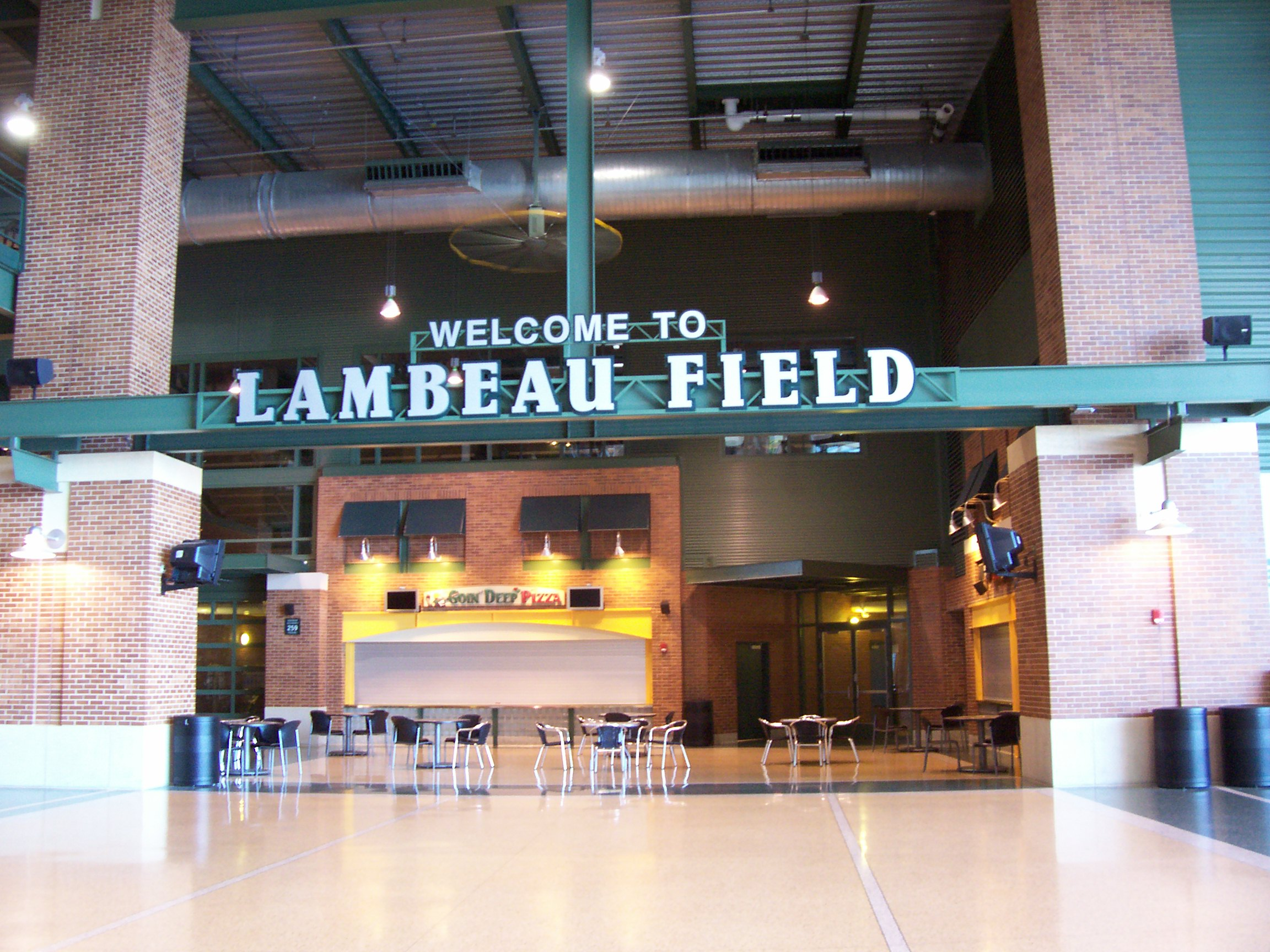 A welcome sign in the atrium inside Lambeau Field in Green Bay, Wisconsin, USA.